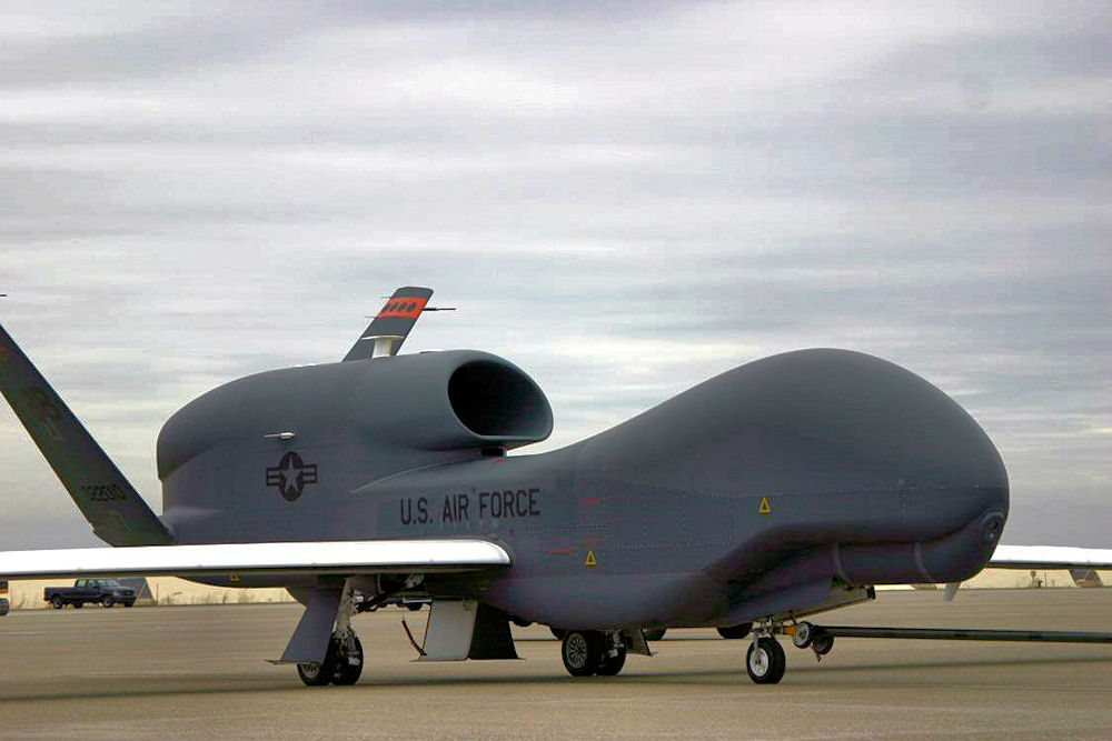 The RQ-4 Global Hawk Unmanned Aerial Vehicle provides Air Force and joint battlefield commanders near real-time, high-resolution intelligence, surveillance and reconnaissance imagery. The 12th Reconnaissance Squadron here is the home unit for the Global Hawk mission. (U.S. Air Force photo by Staff Sgt. Timothy Jenkins)